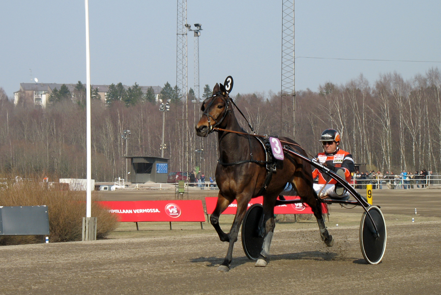 Passionate Kemp in Vermo, being heated for Finlandia-ajot 2006. Age 5.